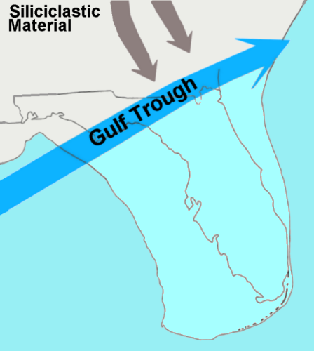 Depiction of Gulf Trough based on University of Florida diagrams